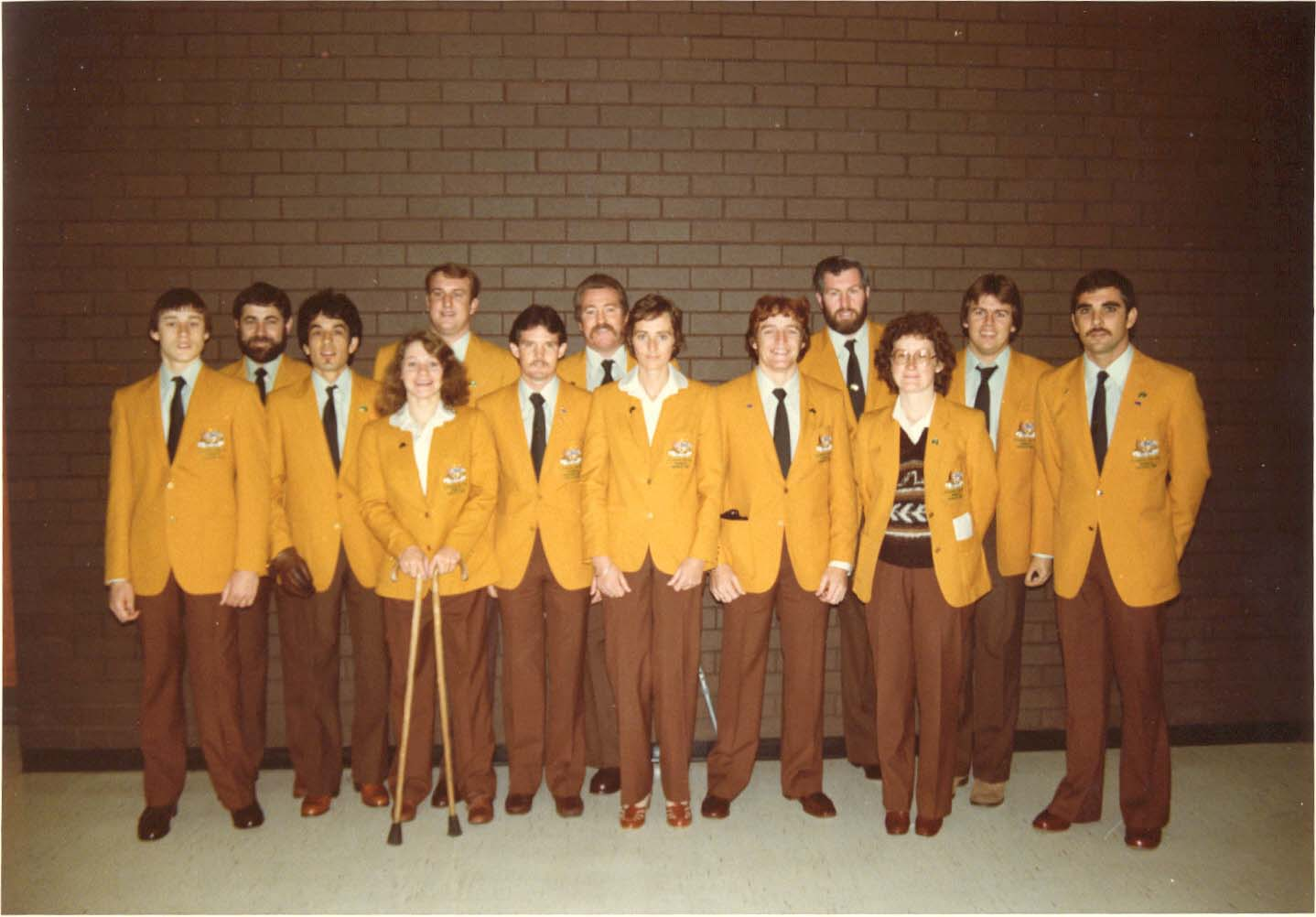 The Australian Amputee Team at the 1980 Summer Games, The Netherlands